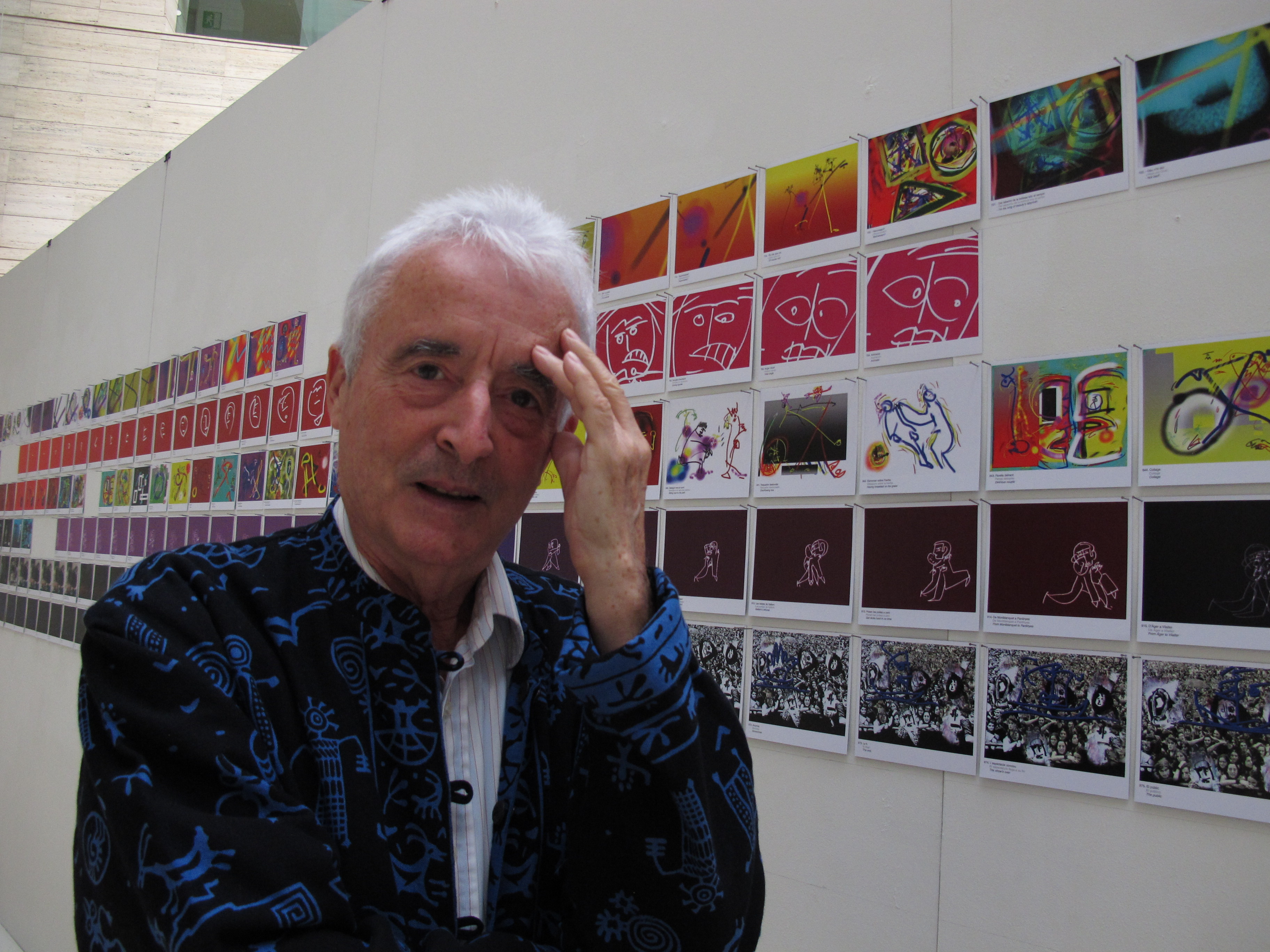 Benet Rossel in the Mil a Miró. The storyabroad inauguration. Lleida Public Library, october 2011.